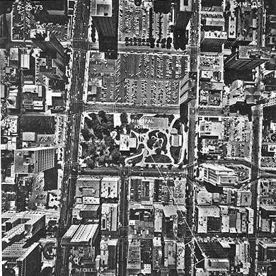 Vertical displacement